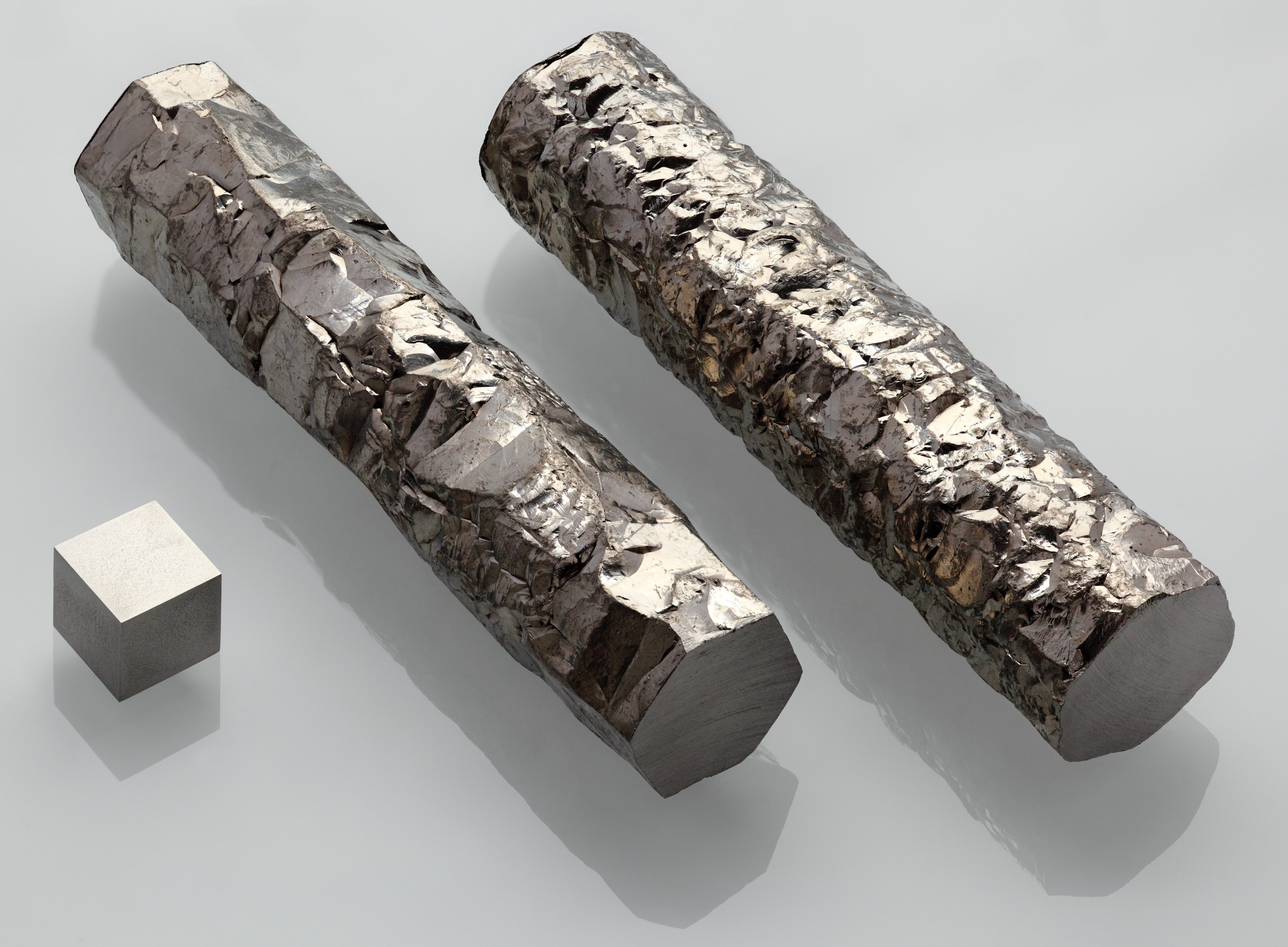 Purest zirconium 99.97%, two samples of crystal bar showing different surface textures, made by crystal bar process, as well as a highly pure (99,95 % = 3N5) 1 cm3 zirconium cube for comparison. The metal piece-photo was taken on a white glass plate.